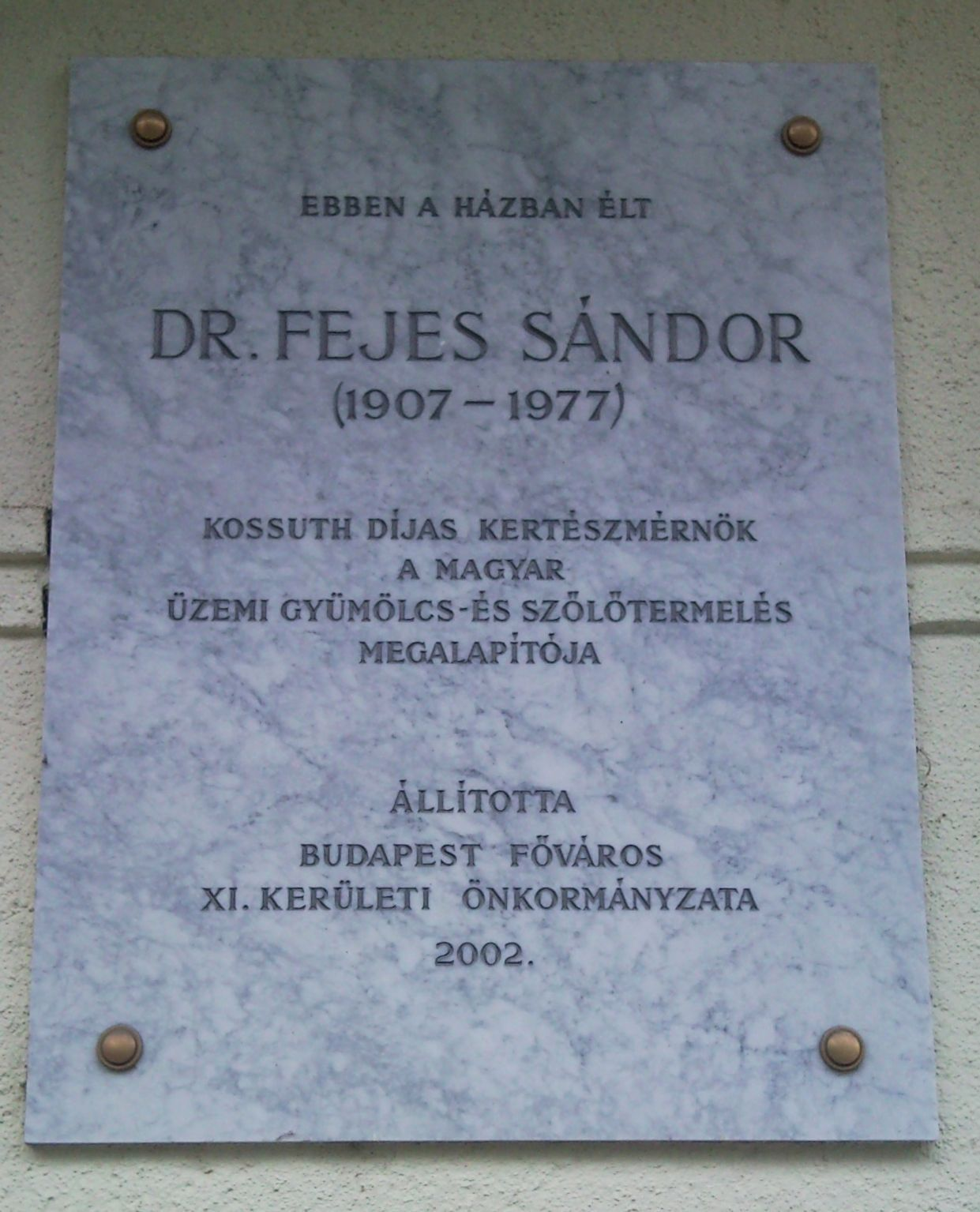 Sándor Fejes commemorative plaque in Budapest District XI, Edömér Street No 6.